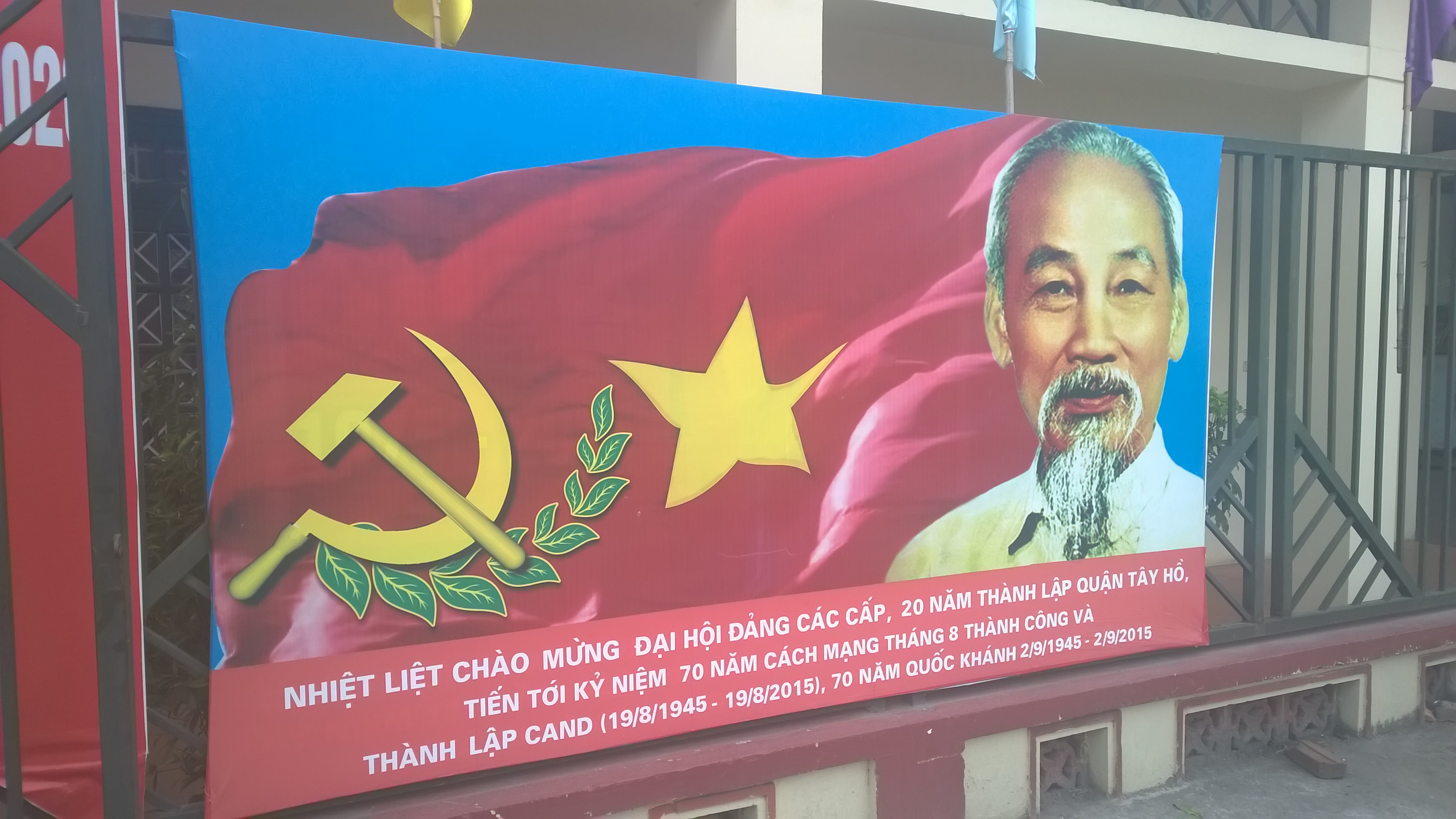 Tay Ho Communist propaganda posters in 2015.